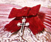 Order of Saint Charles Mexico